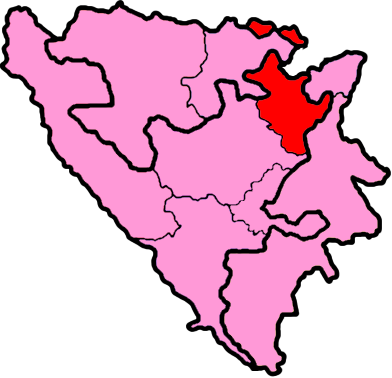 The fifth electoral unit of the Federation of Bosnia and Herzegovina (HoRBiH) shown within Bosnia and Herzegovina.